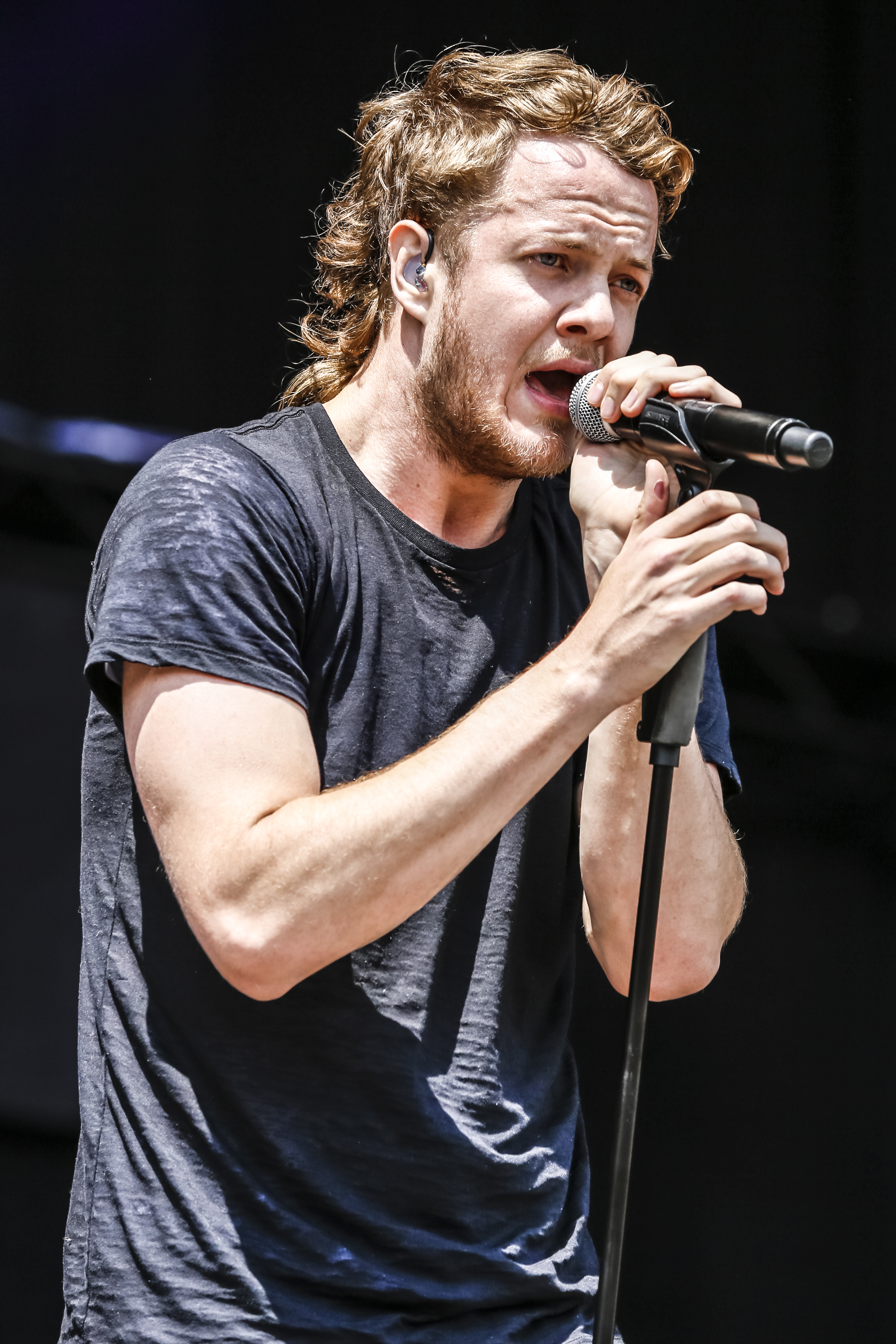 Dan Reynolds of Imagine Dragons at Rock im Park 2013 in Nuremberg, Germany